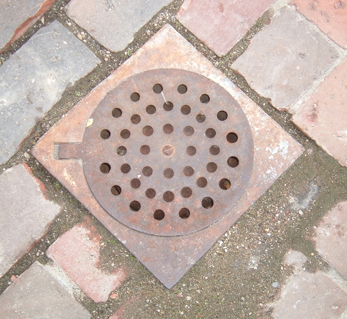 Outside patio drain. One of a series of common objects I photographed in the summer of 2005 to illustrate Basic English picture wordlist. --agr 21:08, 3 August 2005 (UTC)